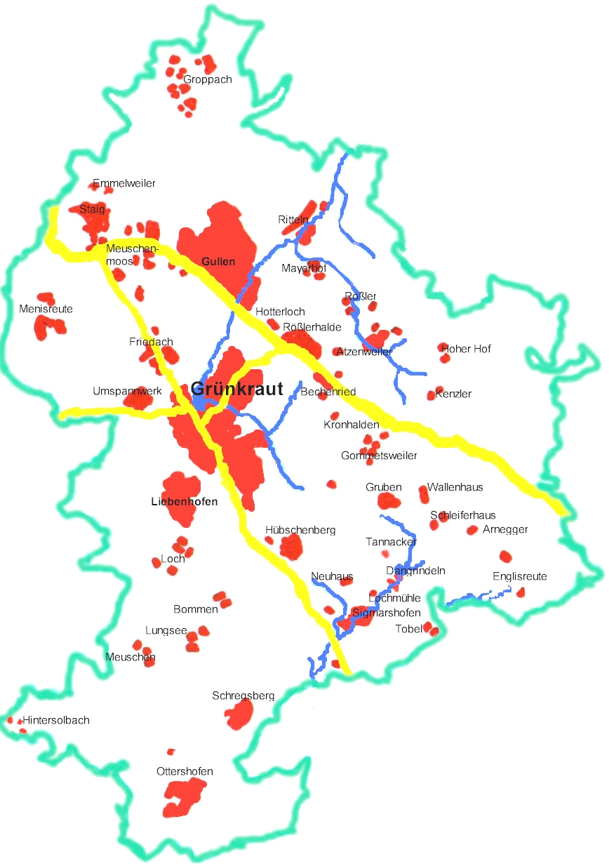 The territory of Grünkraut